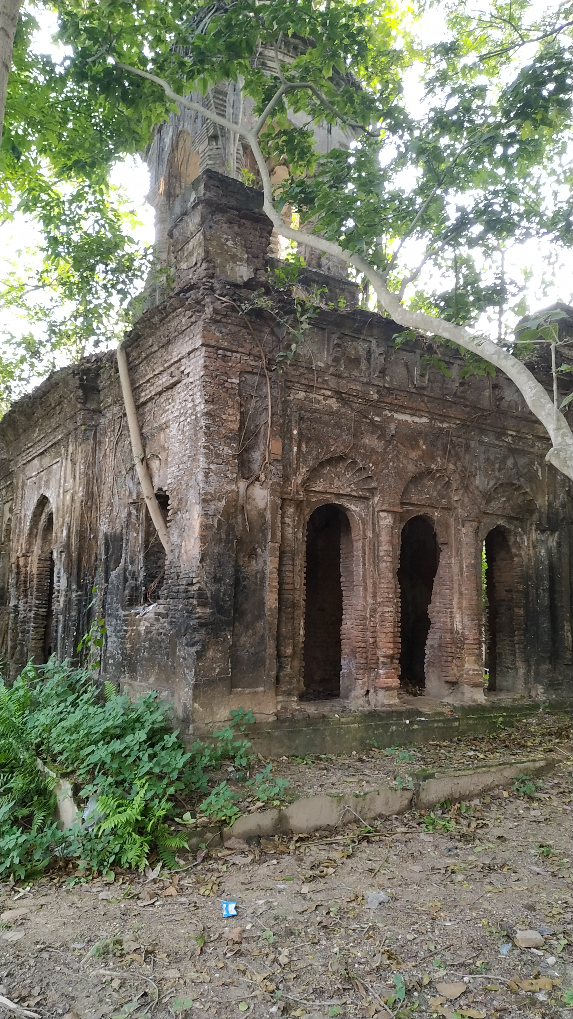 Nilkuthi: The Nilkuthi was established during the British rule to guard the Nile cultivators. It is located in Itna village of Lohagara upazila of Narail district,Multiple layouts are still visible here.